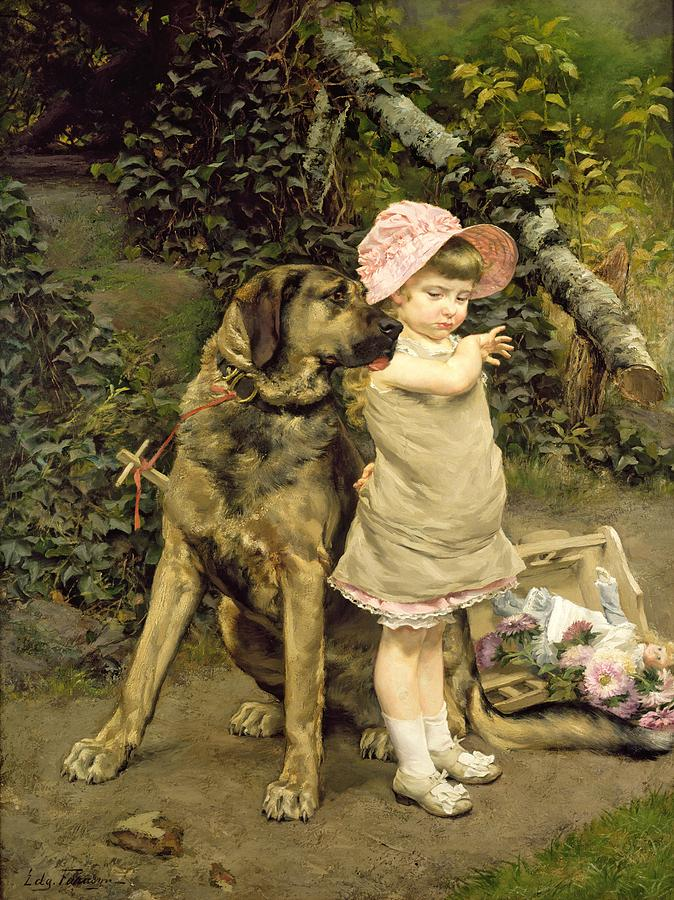 Dog's company